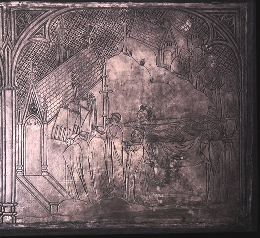 The funeral procession of Saint Henry depicted in a brass plate of the sarcophagus of Saint Henry in Nousiainen Church, Finland. Early 15th century.